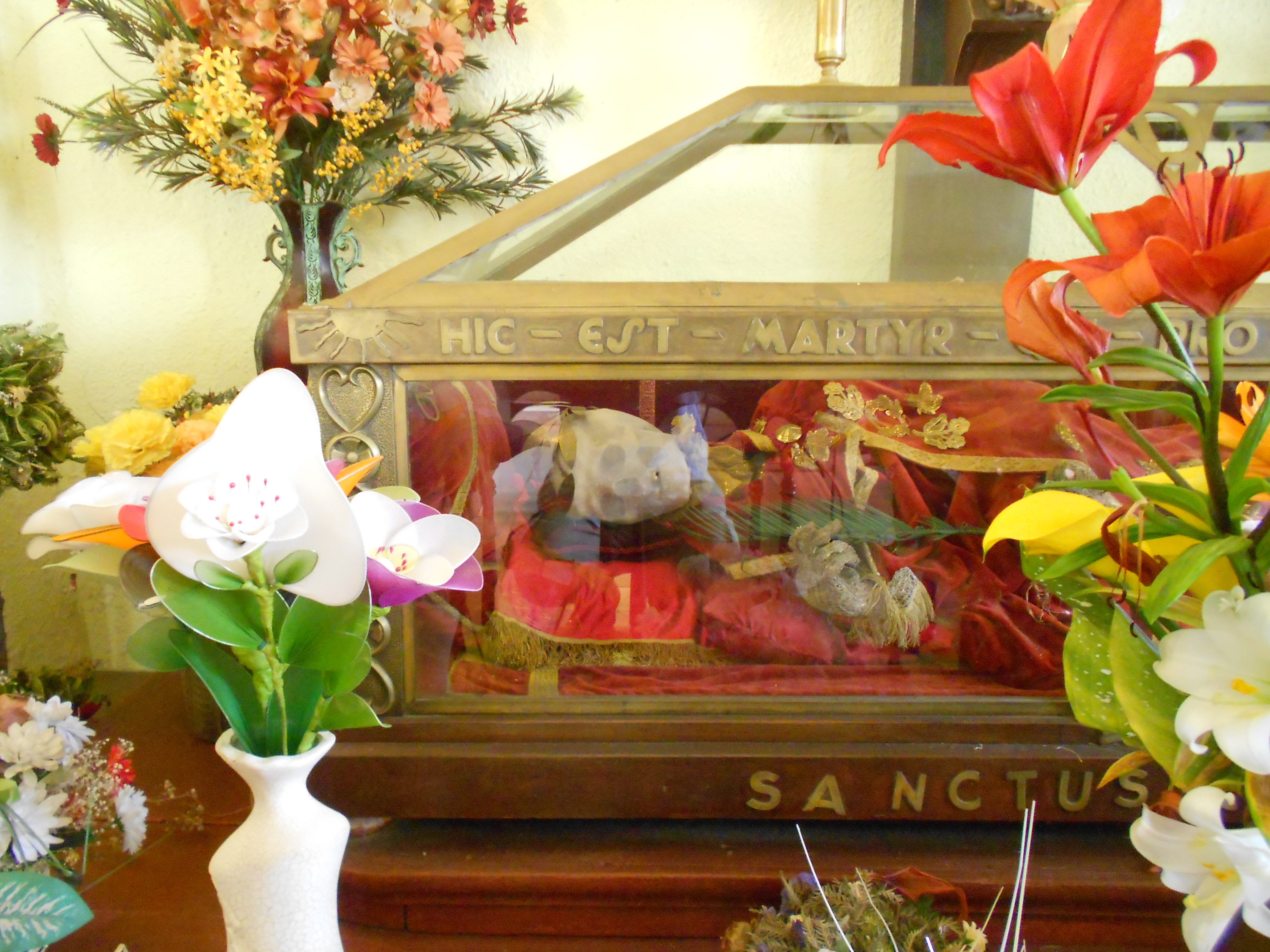 Image of the relics of St. Clement of Rome, in the Cathedral of Linares in Chile